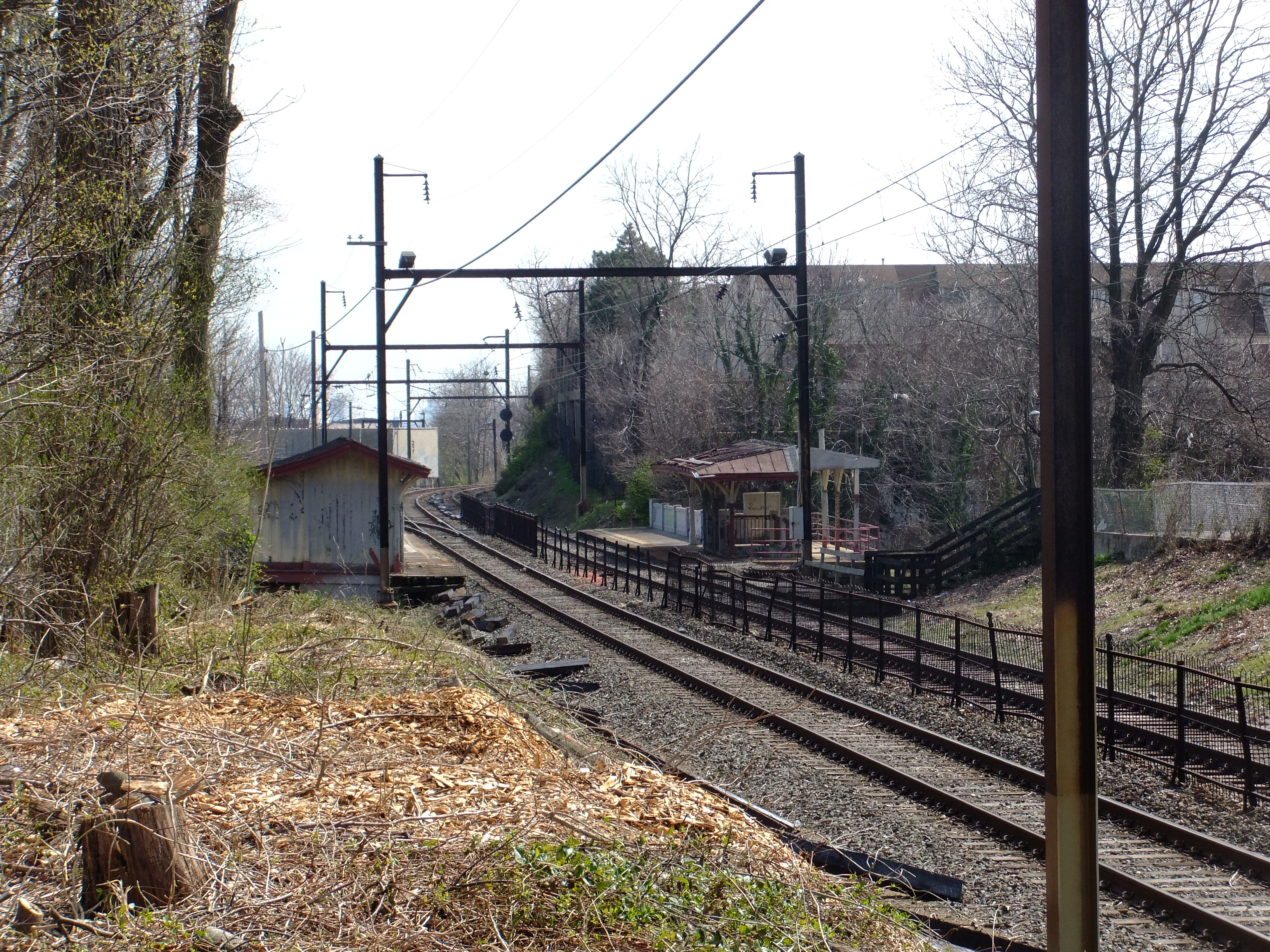 Looking south at the abandoned Fishers Station along SEPTA's Chestnut Hill East Line